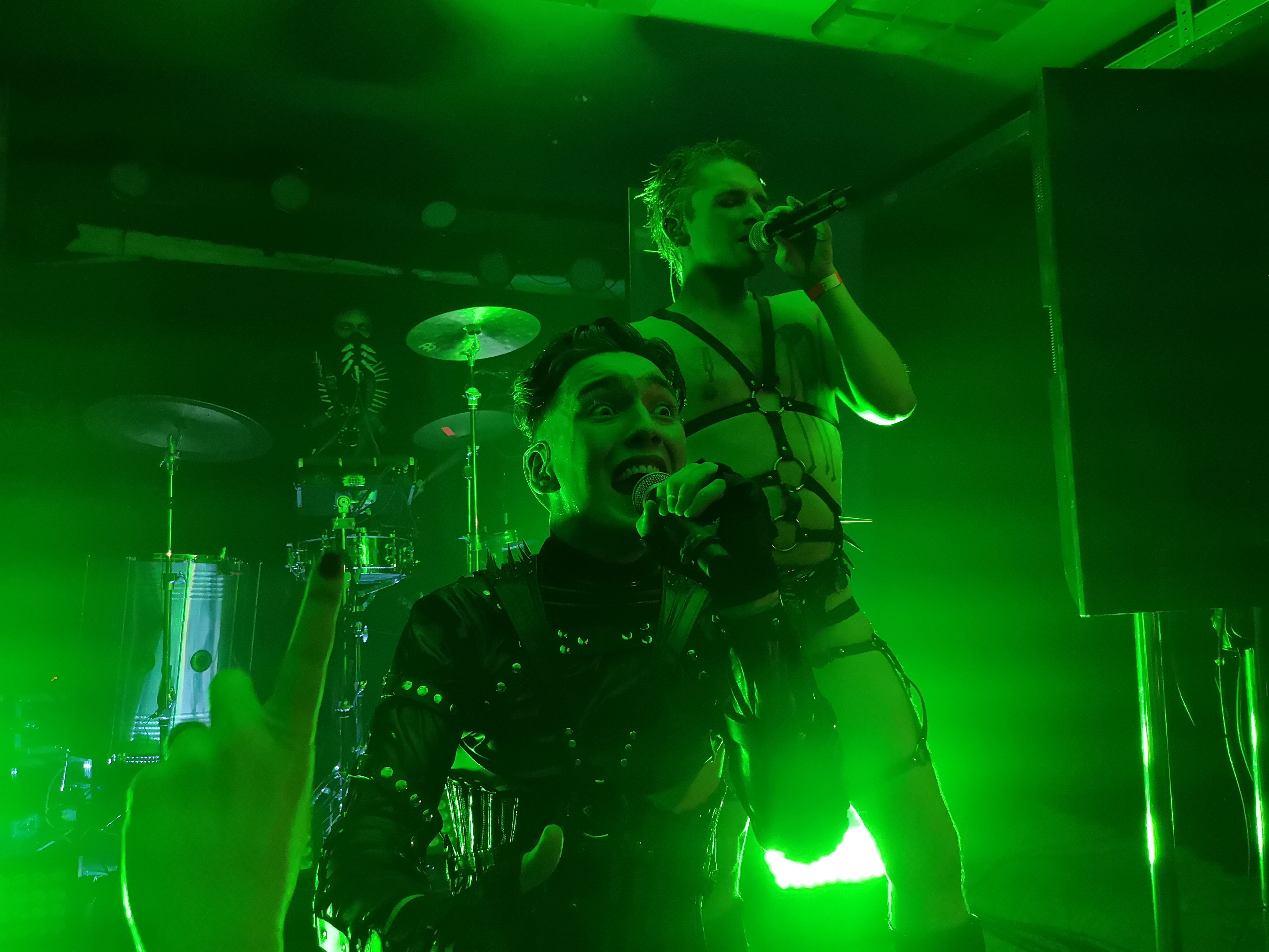 Hatari live at Circolo Ohibò in Milan on February 8th, 2020